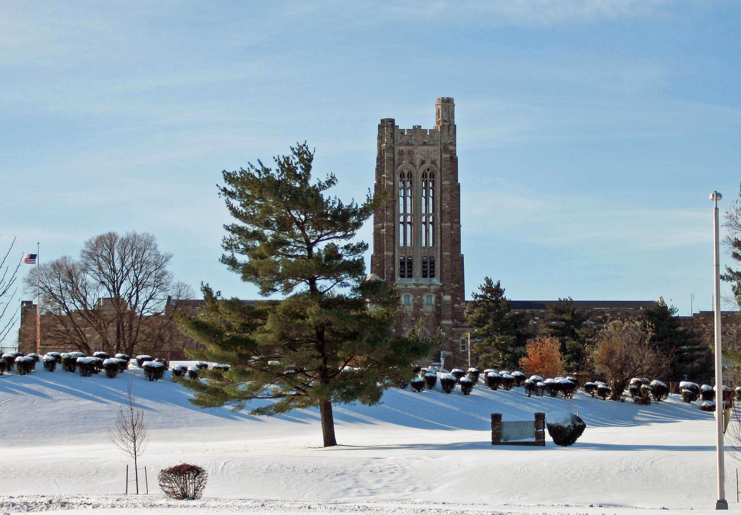 the structure Baltimore city college